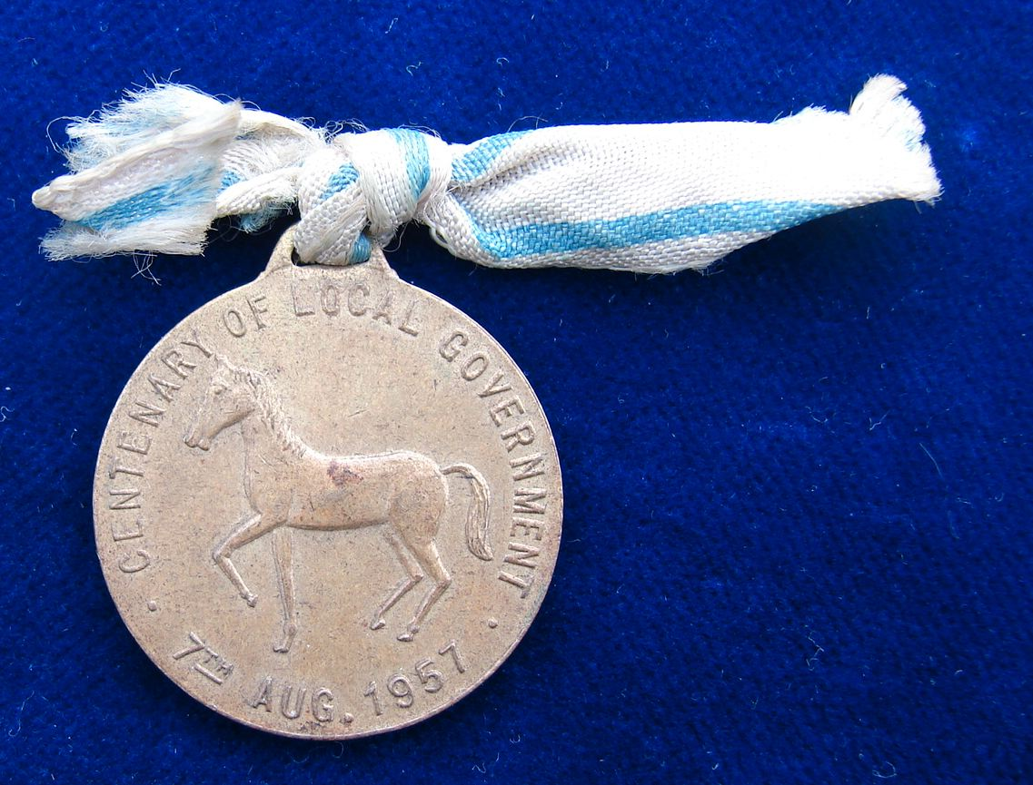 Bronze medallion, d. = 27 mm. The White Horse advancing left; around: "CENTENARY OF LOCAL GOVERNMENT . 7TH. AUG. 1957". Museum Victoria NU 18218; Car.1957/1. Issued By: City of Box Hill, Box Hill, Victoria, Australia Mint: Stokes & Sons, 1957. Condition: EXTREMELY FINE, with original ribbon.